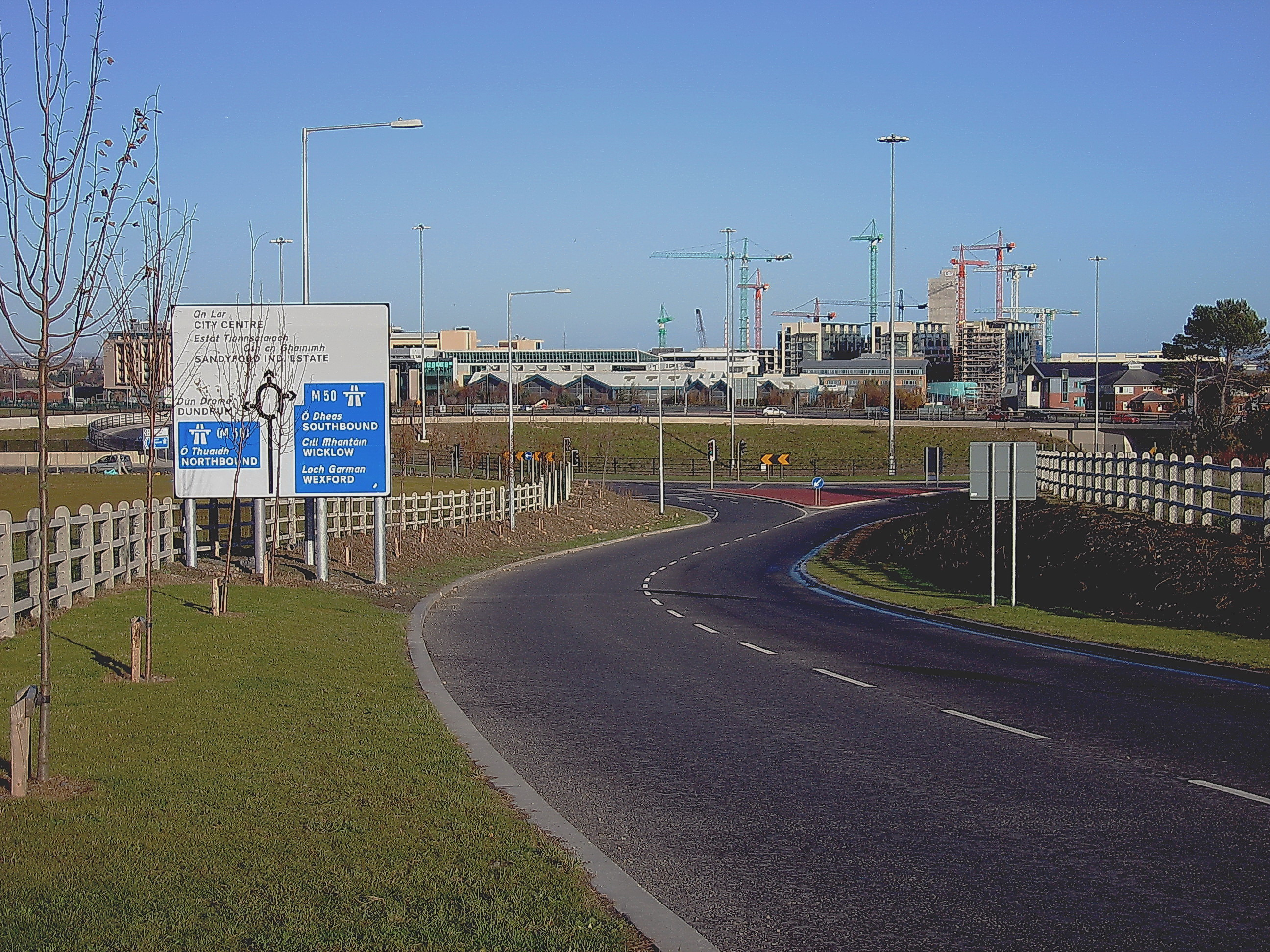 As of Nov 2006, based on the latest OS map of Dublin (data updated to Sept 2005), this is the R113 (not signed as such). It takes a left at the junction in the foreground. Note the footpaths, cycle-lanes etc! Also note the careful positioning of the trees; fortunately they are all now, sadly, dead.